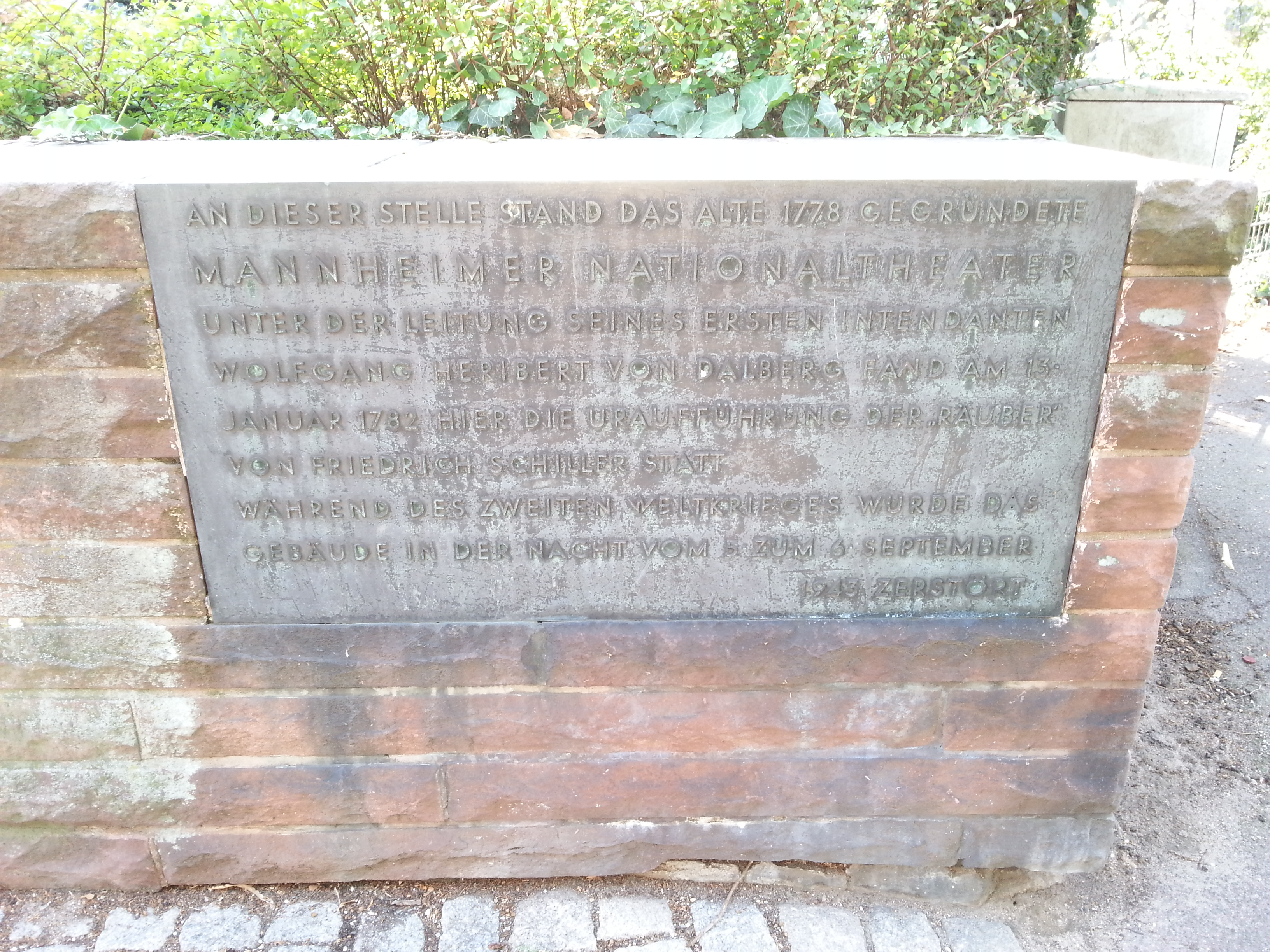 Plaque at the southern end of the Schillerplatz in Mannheim remembering the Old National Theatre Mannheim. The theatre building was destroyed on 5 September 1943 by the Royal Air Force of Great Britain.